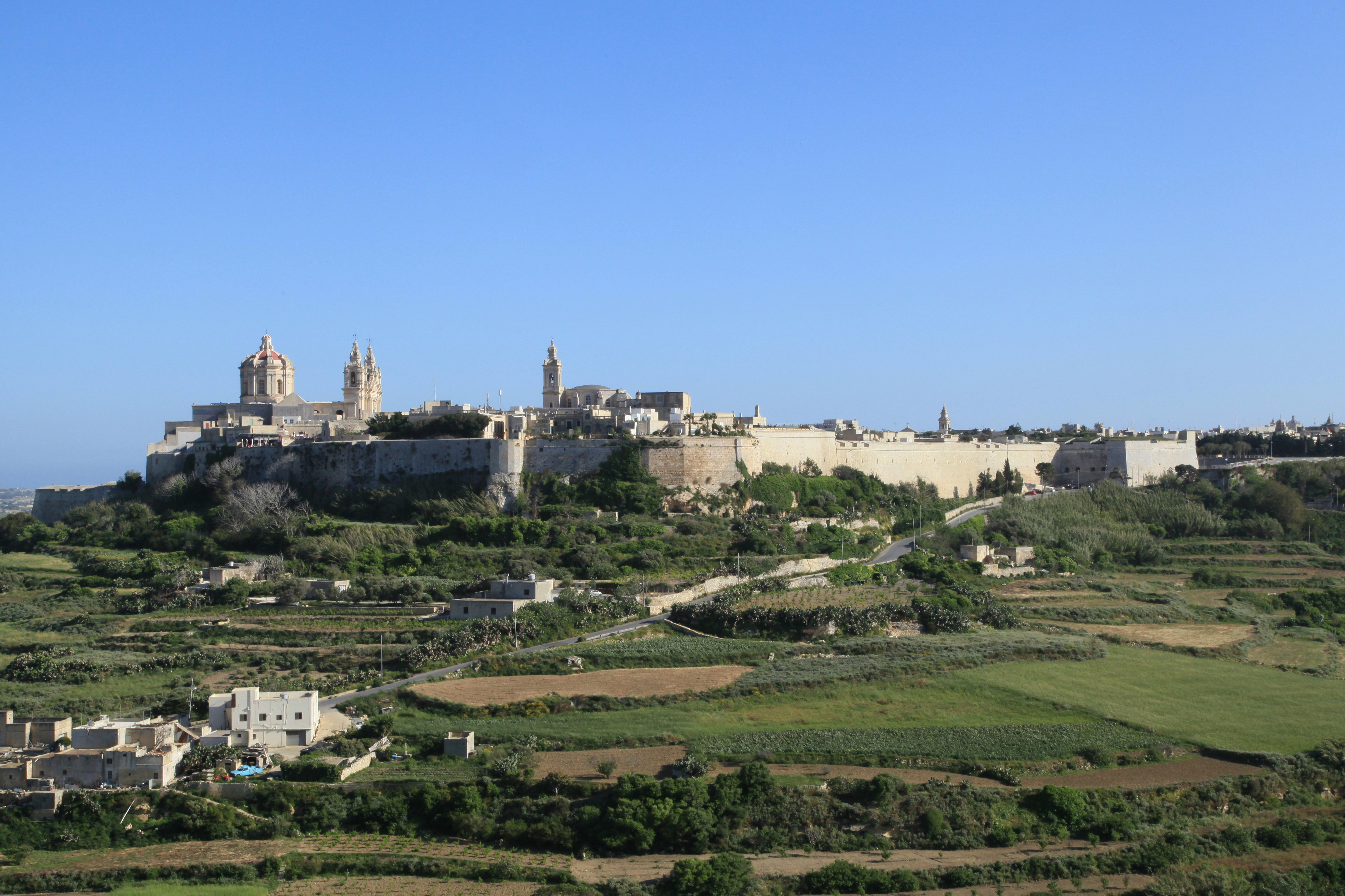 View from Triq San Oswald in Mtarfa to Mdina, Malta